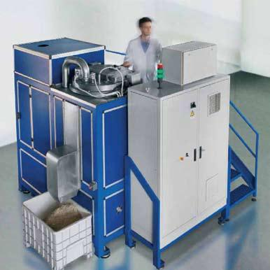 Waste converter station (H series) with operator